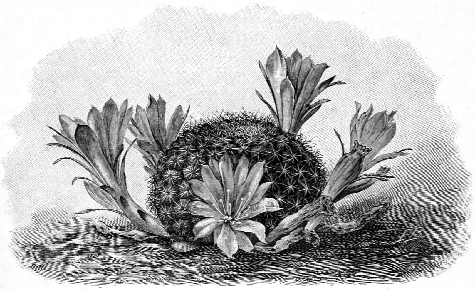 Rebutia minuscula